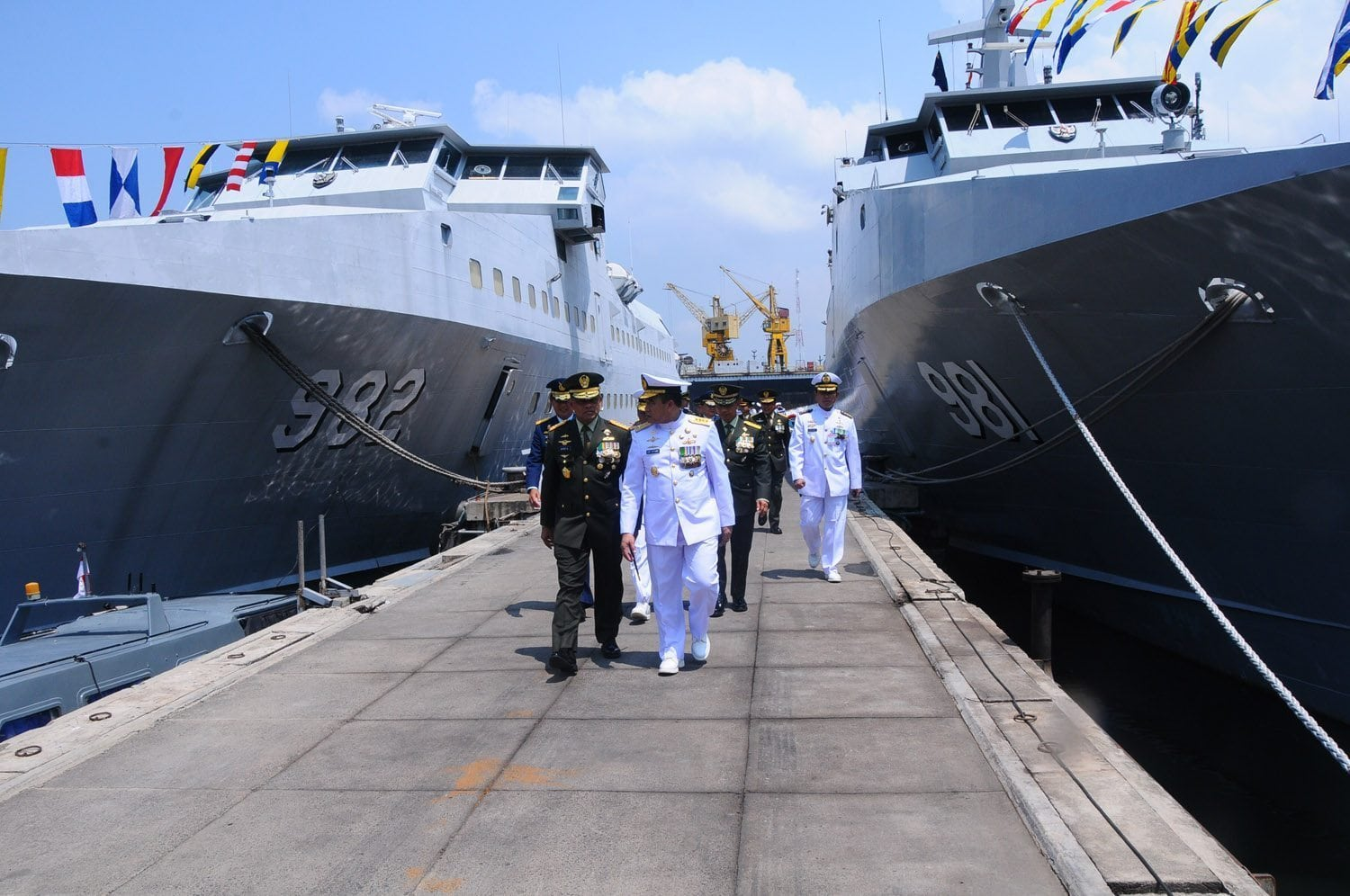 Indonesian Armed Forces Commander Fleet Inspection